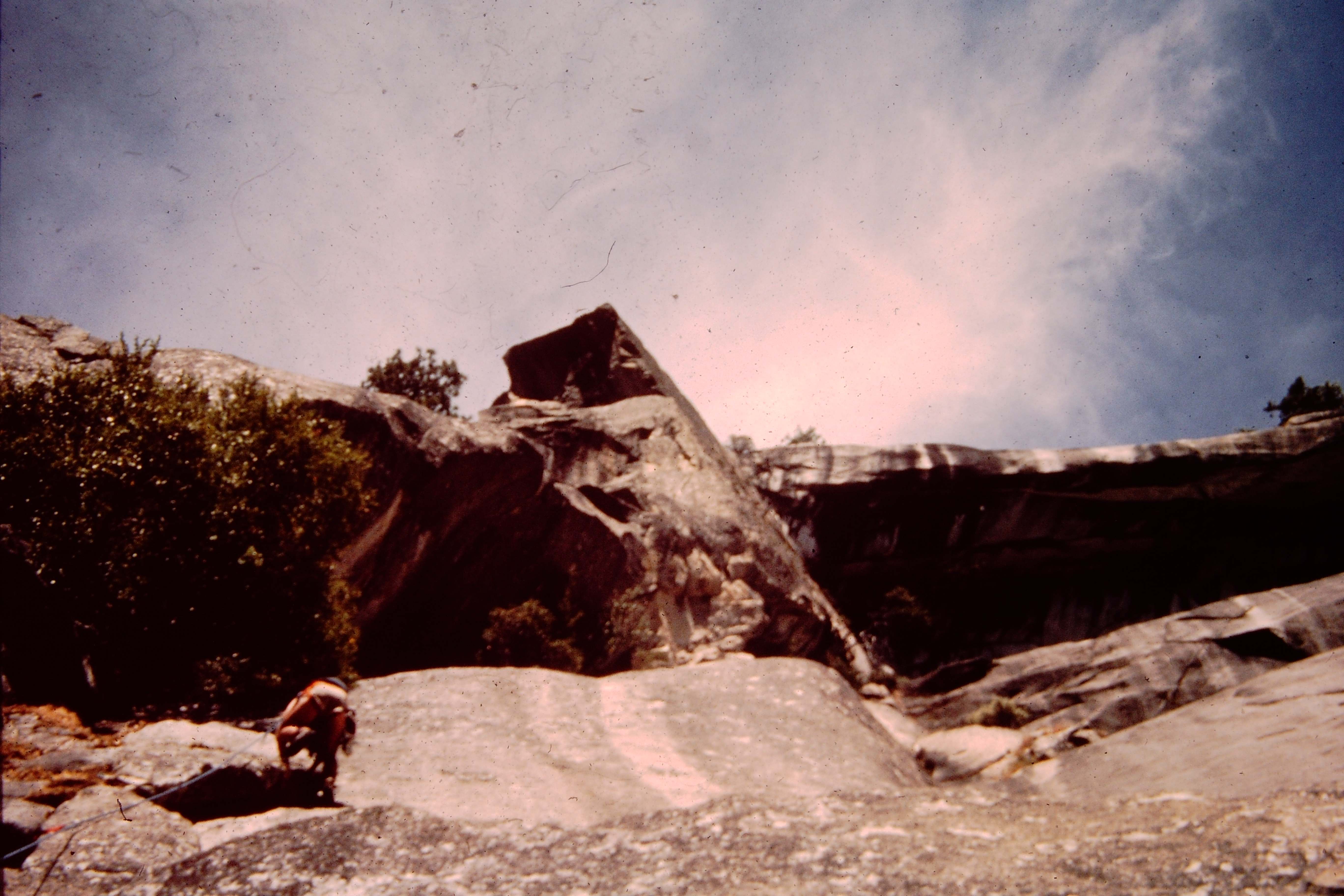 Leading the 11th Pitch of Royal Arches in 1984 shortly after the "old rotten log" fell nearby.